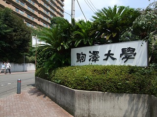 Komazawa University main entrance